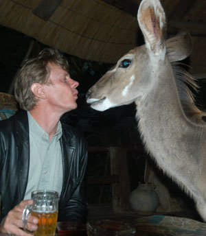 Elephant trainer Dan koehl with kudu Bijou at Sondelani game lodge in Zimbabwe 2005